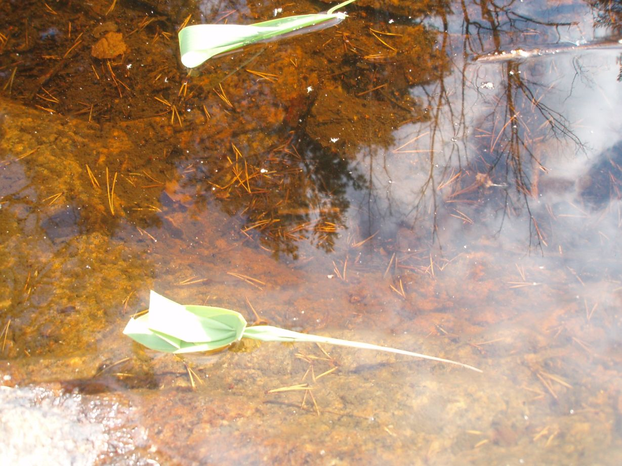 Toy reed boat at water